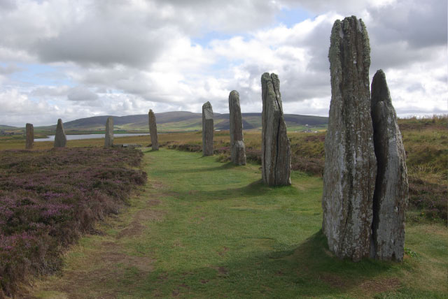 Ring of Brodgar The Ring of Brodgar is an impressive widely spaced stone circle, with 27 stones still standing.